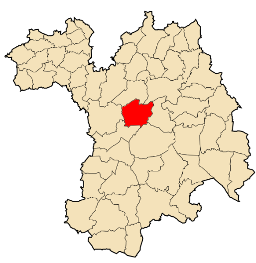 Localitation of Sétif in north of Africa